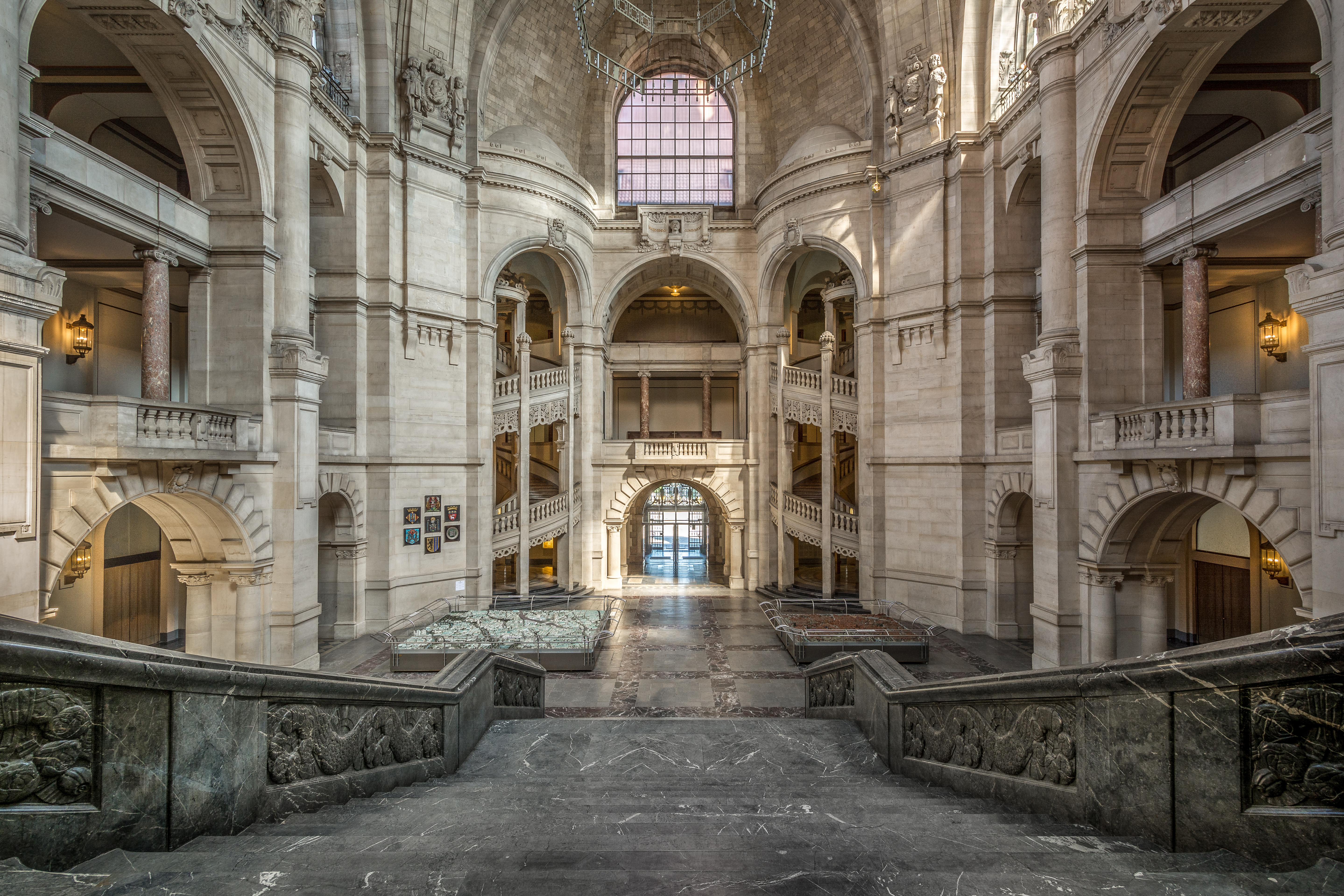 Lobby of the New Town Hall in Hanover